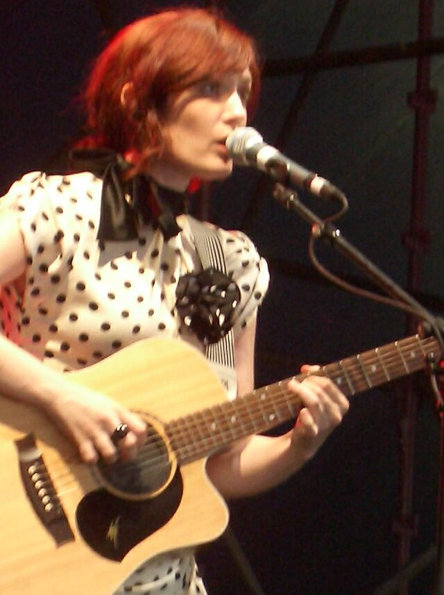 Sarah Blasko performing at the Melbourne Big Day Out, January 2006 (the year it was held in Princes Park). Yes, she has awesome dress sense AND plays guitar as well!